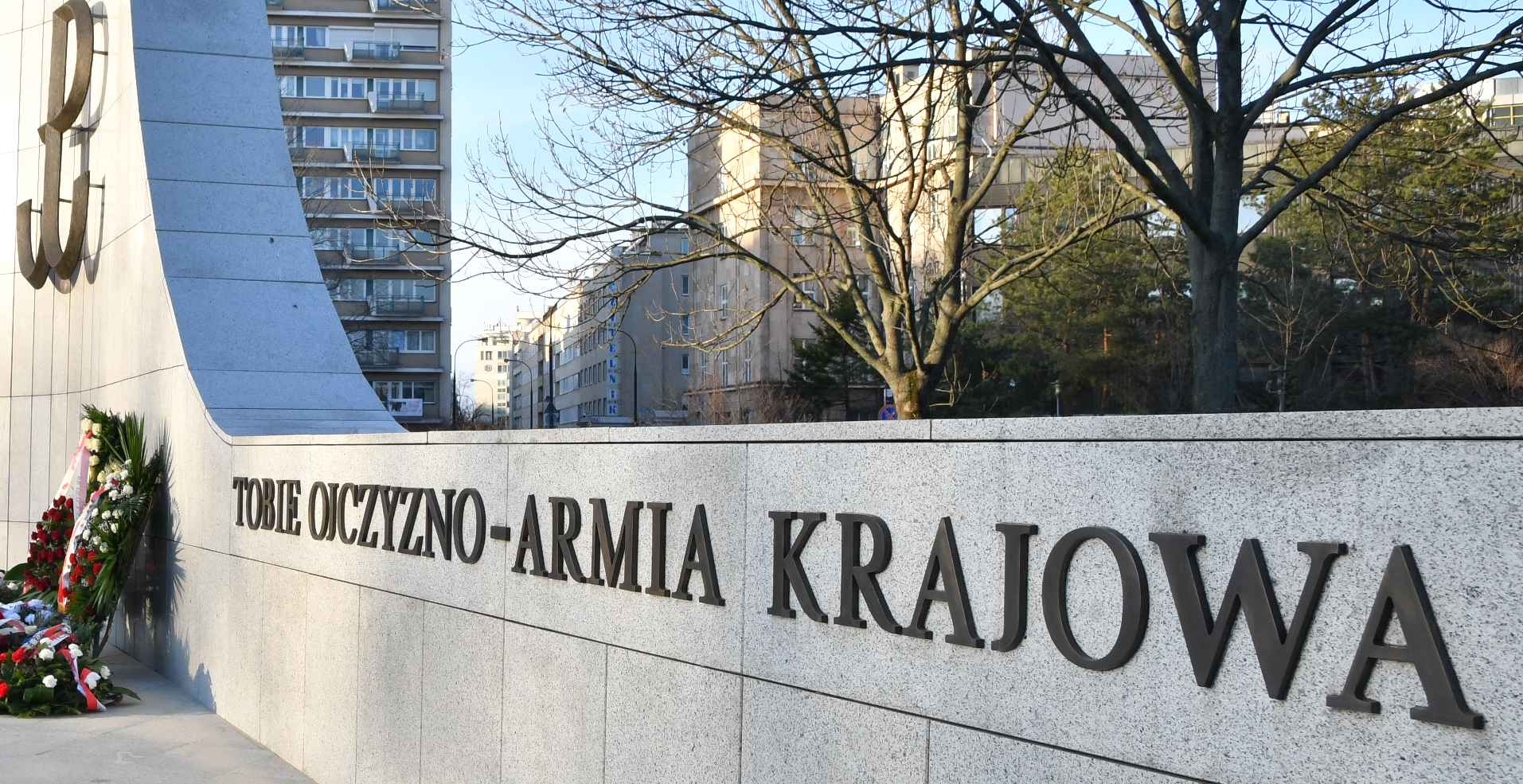 You Homeland - Home Army. The inscription on the Monument of the Home Army and the Polish Underground State in Warsaw (cropped). The Home Army (AK) or the Armed Forces in the Country, code name "PZP" (Polish Insurrection Association) is an underground armed force of the Polish Underground State in the years of World War II, operating on the territory of the Republic of Poland, occupied by Germany and the USSR. (Cropped)